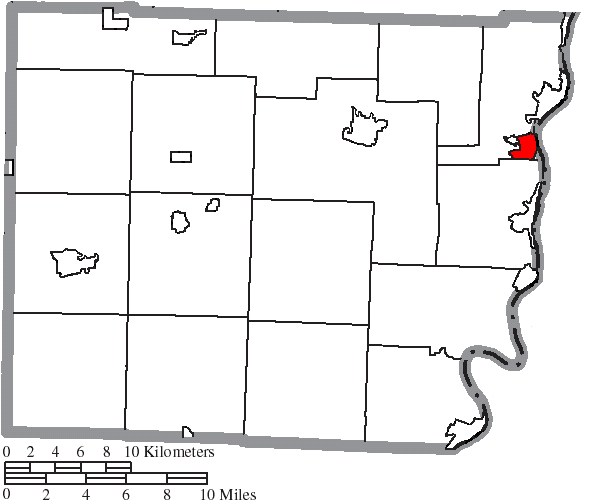 Map of the municipal and township boundaries of Belmont County, Ohio, United States, as of the 2000 census, with the location of the village of Bridgeport highlighted. Township borders are shown only in unincorporated areas in order to differentiate incorporated and unincorporated areas more clearly.